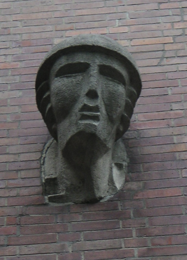 Sculptured head at the Haus der Technik in Essen, Germany, sculptured by Will Lammert